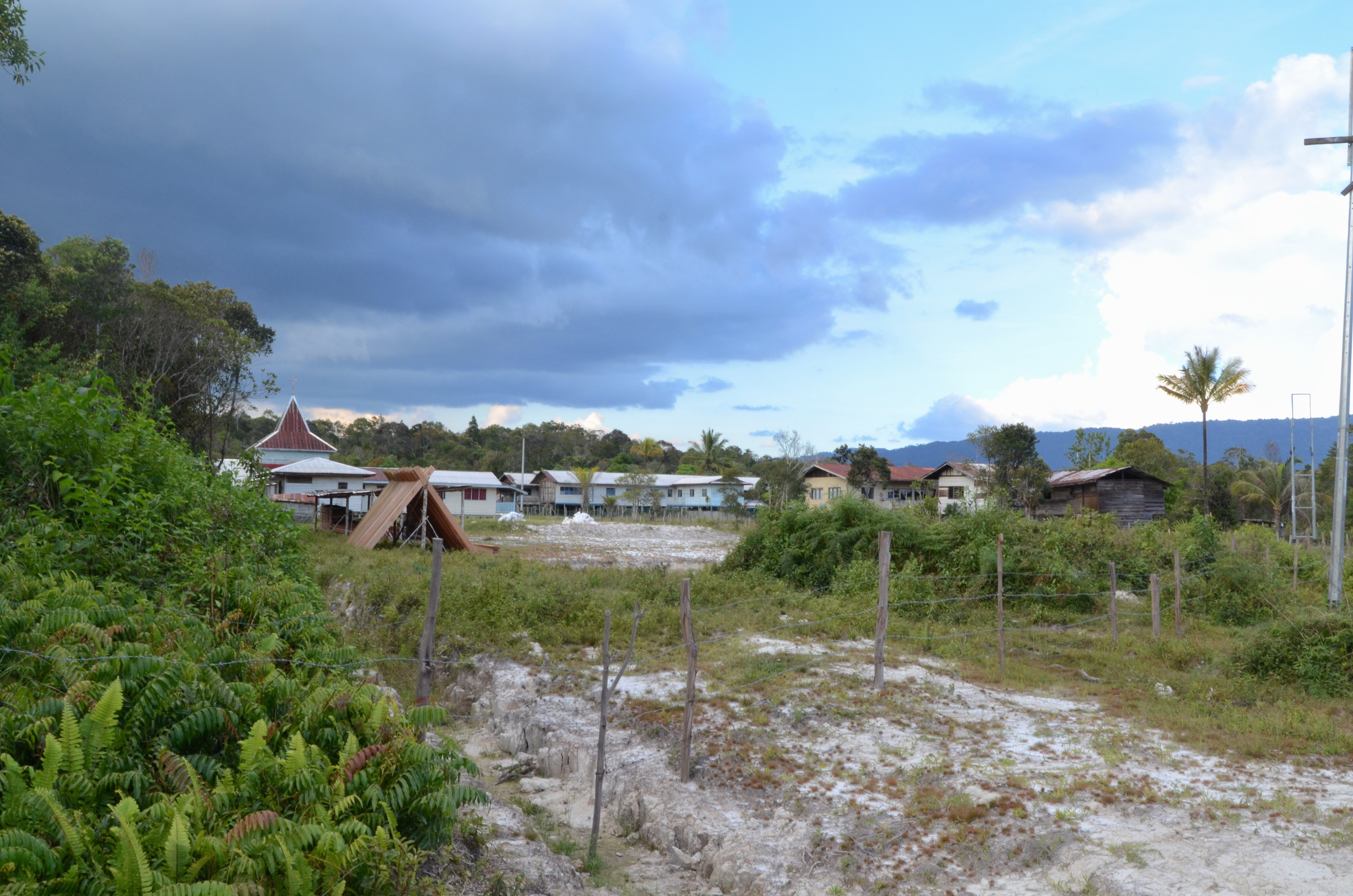 Kelabit Highlands is a very interesting and quite isolated place bordering Indonesia. We stayed at Gem's Lodge a few kilometers from Bario, the "capital" of Kelabit Highlands. The village is tiny (no shops but a church), and the hosts are great.